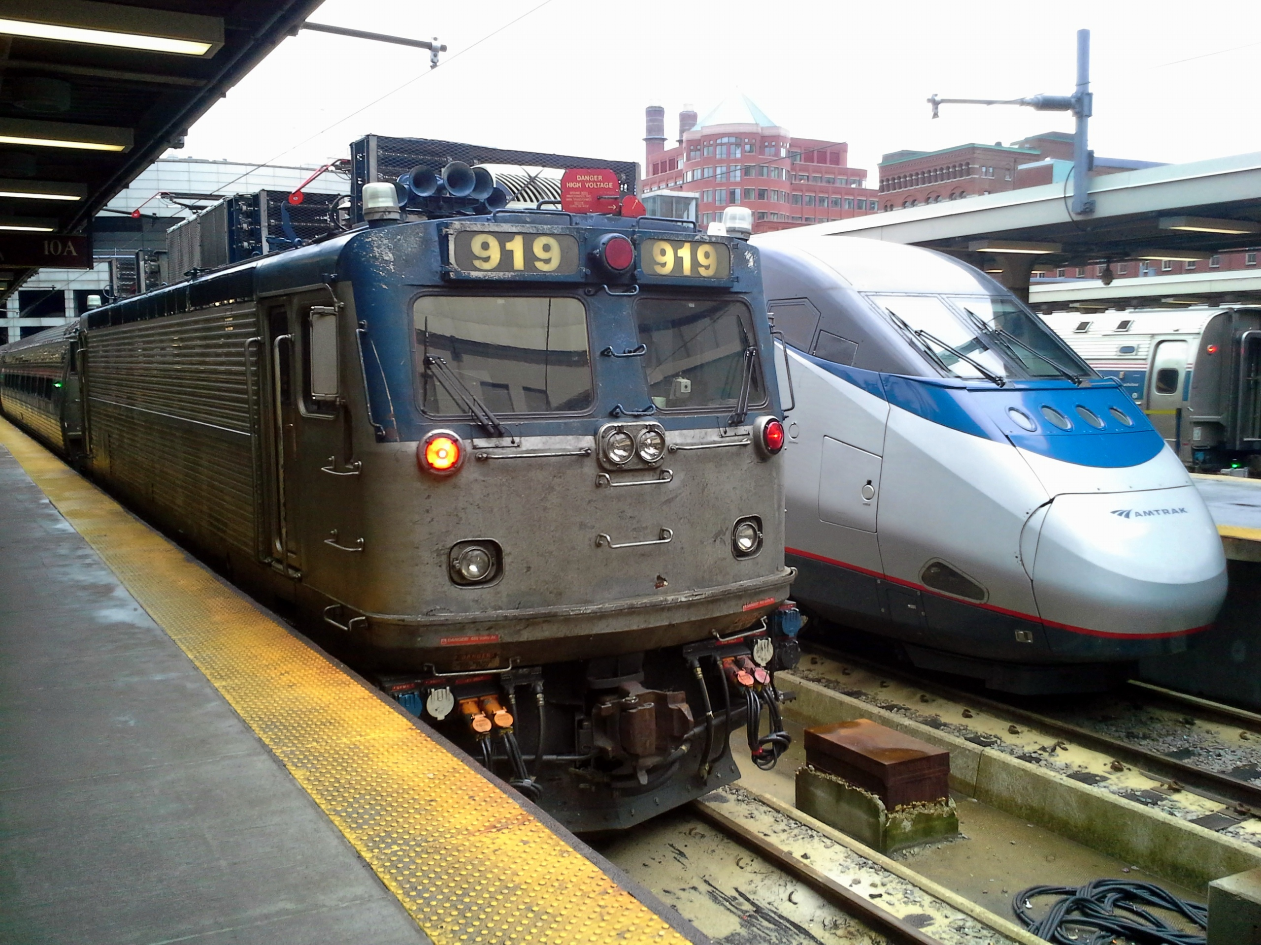 AMTRAK locomotive 919 model EMD AEM-7 in South Station, Boston, Massachusetts on March 31, 2014 during early evening rush hour